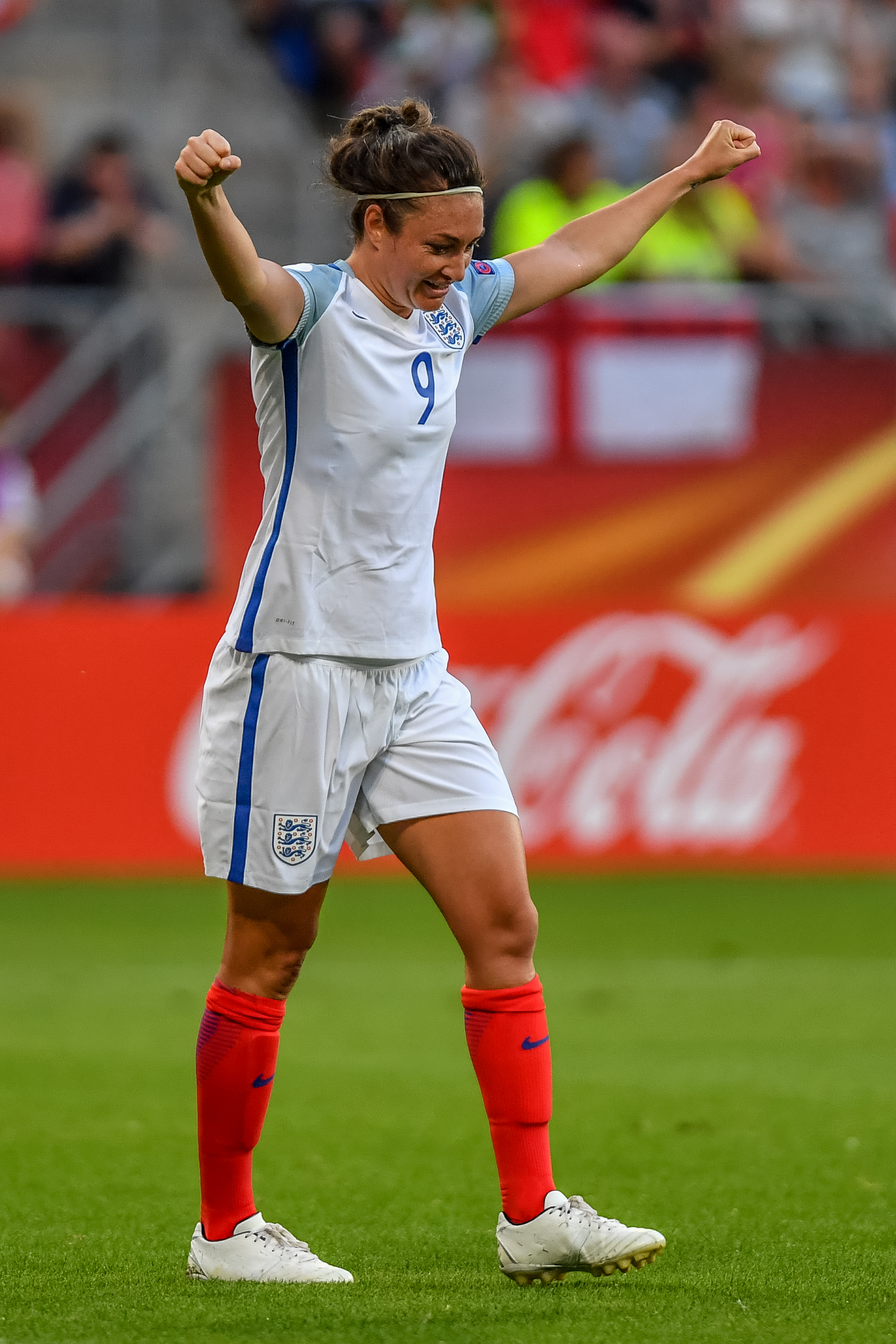 Utrecht, Netherlands, sports, soccer, UEFA Women's Euro 2017 - England vs Scotland. Image shows